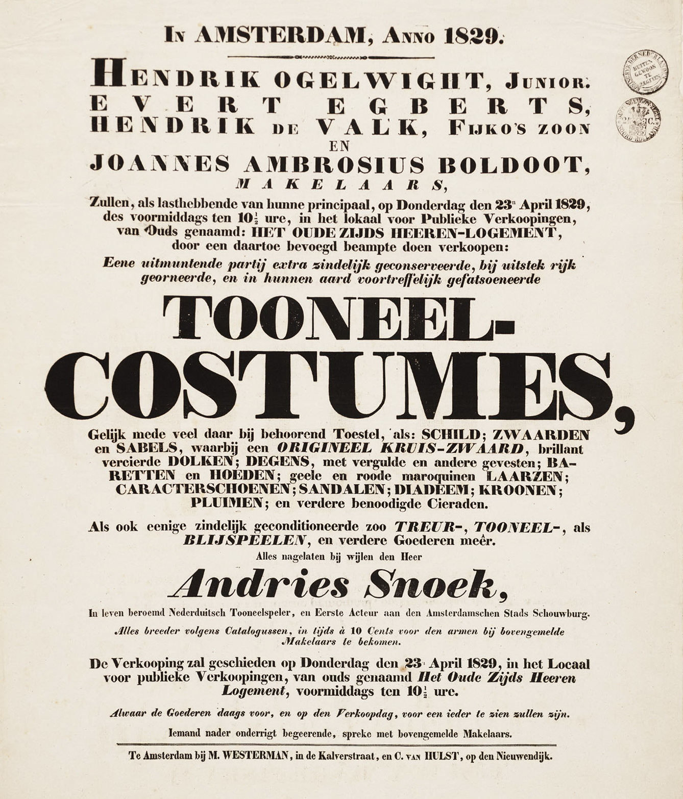 Announcement of public auction of theatre costumes, etc, from the estate of Dutch actor Andries Snoek (1766-1829) after his death in 1829.